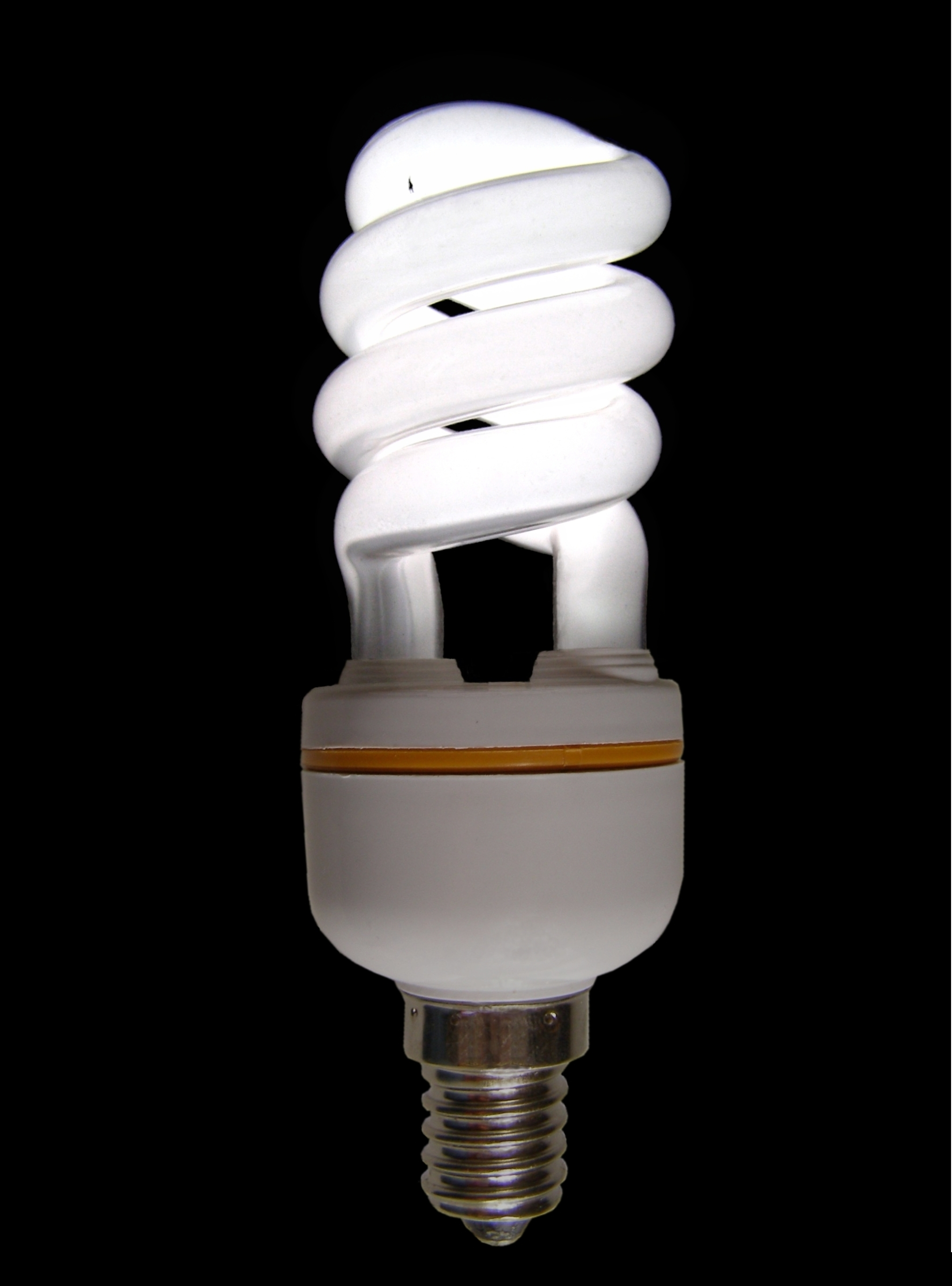 The very efficient fluorescent lamp of the future, whith no energy usage? Unfortunately nothing like this exists, it's only an image editing.